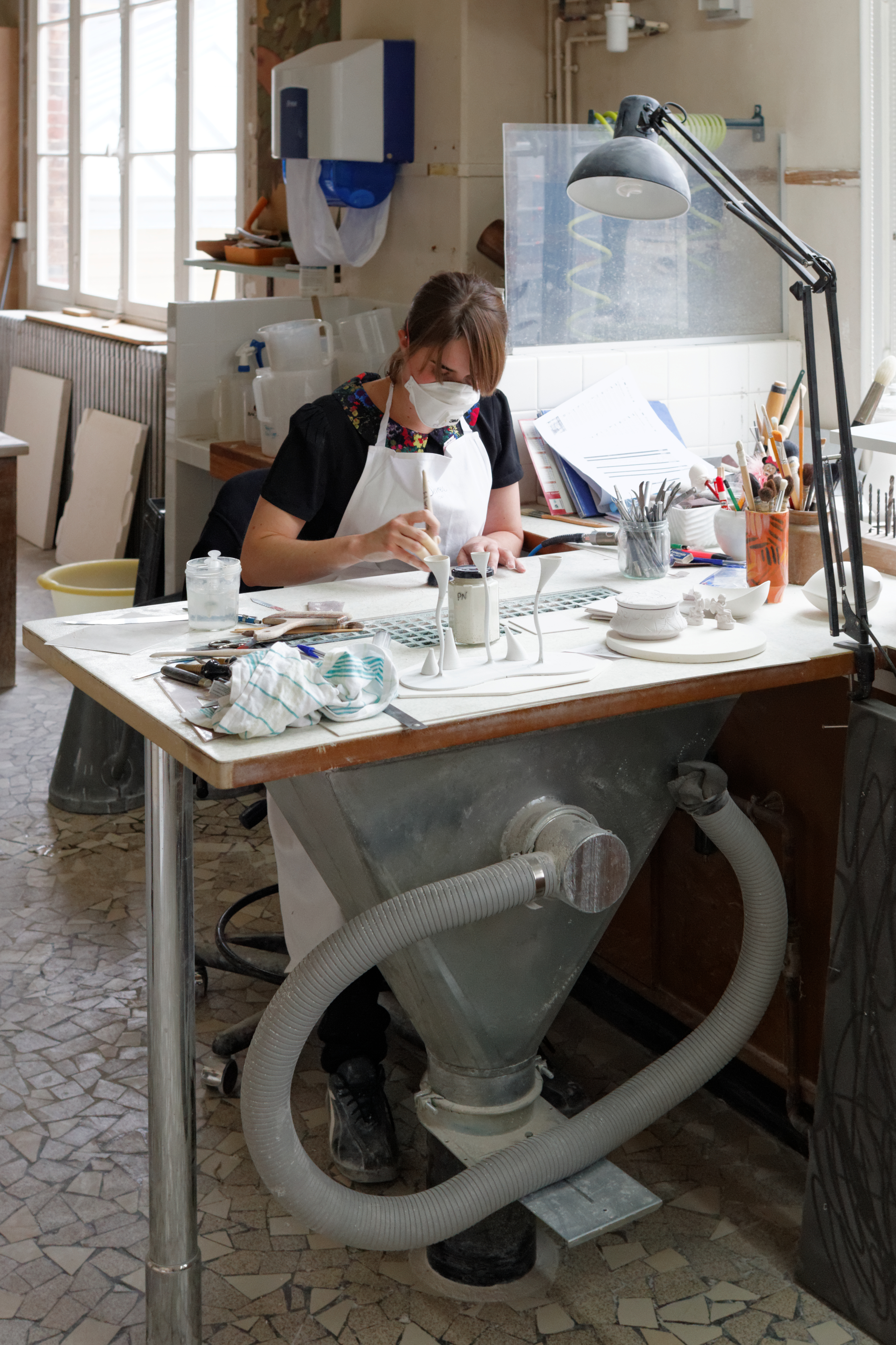 Small-scale casting (slipcasting) workshop of the manufacture nationale de Sèvres. Touching up after drying.